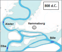 Hammaburg at the beginning of the 9th century